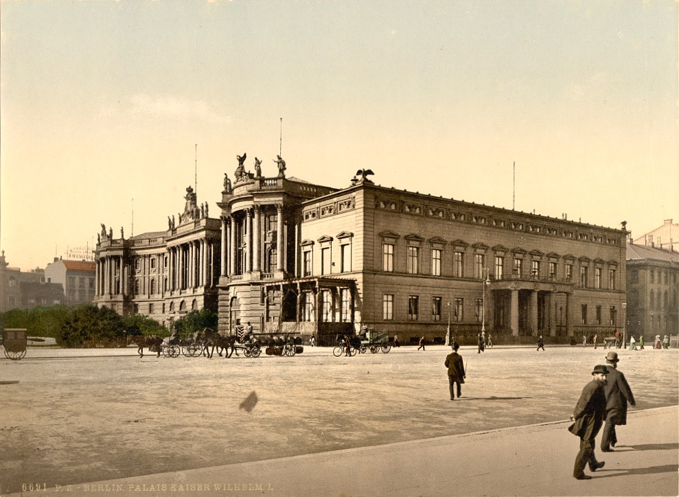 Title from the Detroit Publishing Co., catalogue J-foreign section. Detroit, Mich. : Detroit Photographic Company, 1905..; Print no. "6691".; Forms part of: Views of Germany in the Photochrom print collection.